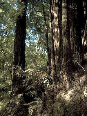 (Photo by John Pilge, I am the author.) Redwood tree in Niesene Marks.